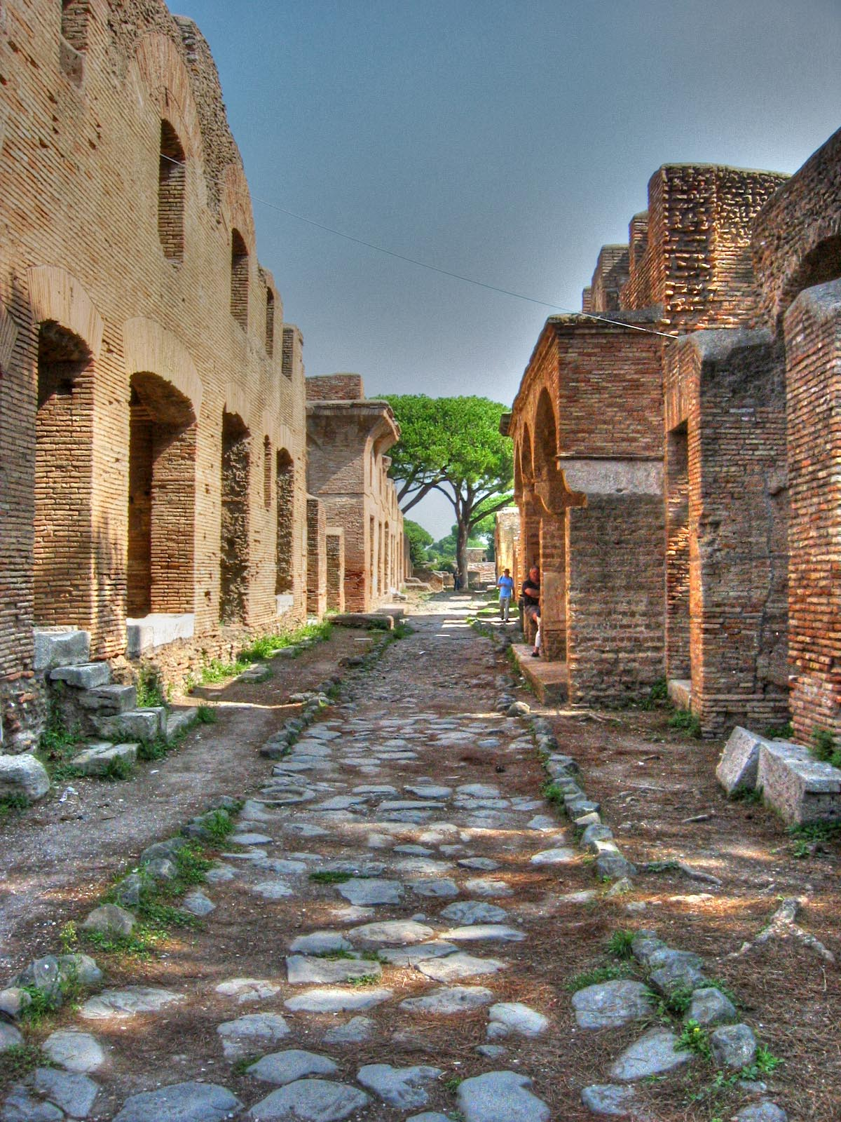 Roma, Marche, ItaliaInto the roman world